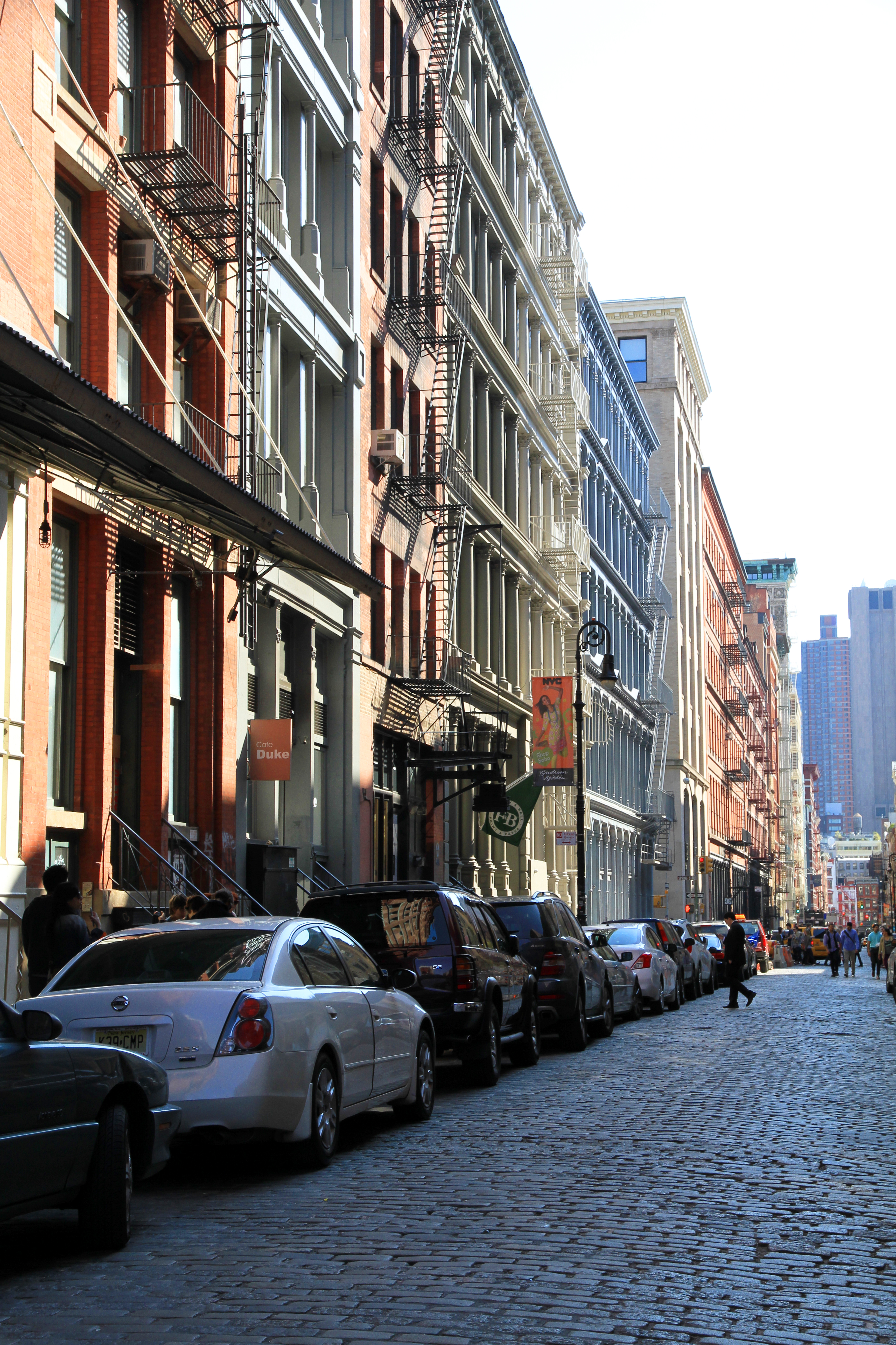 NYC - SoHo